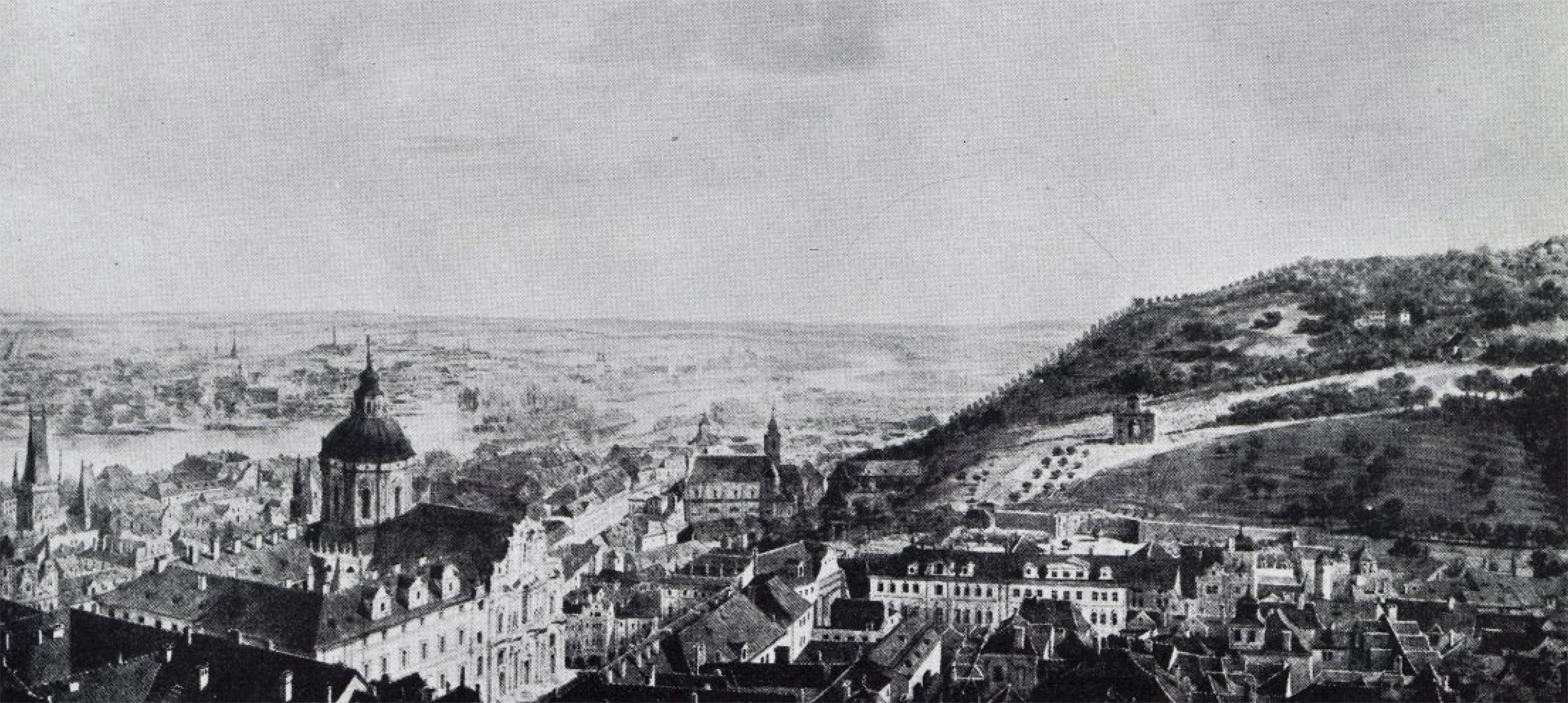 View of Malá Strana and Petřín hill from the Prague Castle windows (1812), watercolor by Jean-Baptiste Isabey